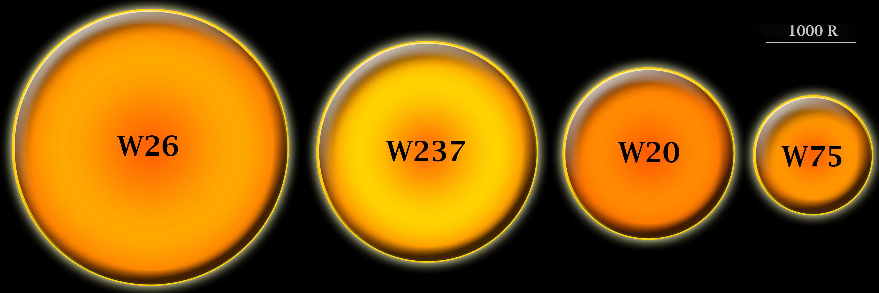 Comparison of Radii of the 4 known RSGs located in the Westerlund 1 star cluster, in particular Westerlund 1-26, Westerlund 1-237, Westerlund 1-20, Westerlund 1-75